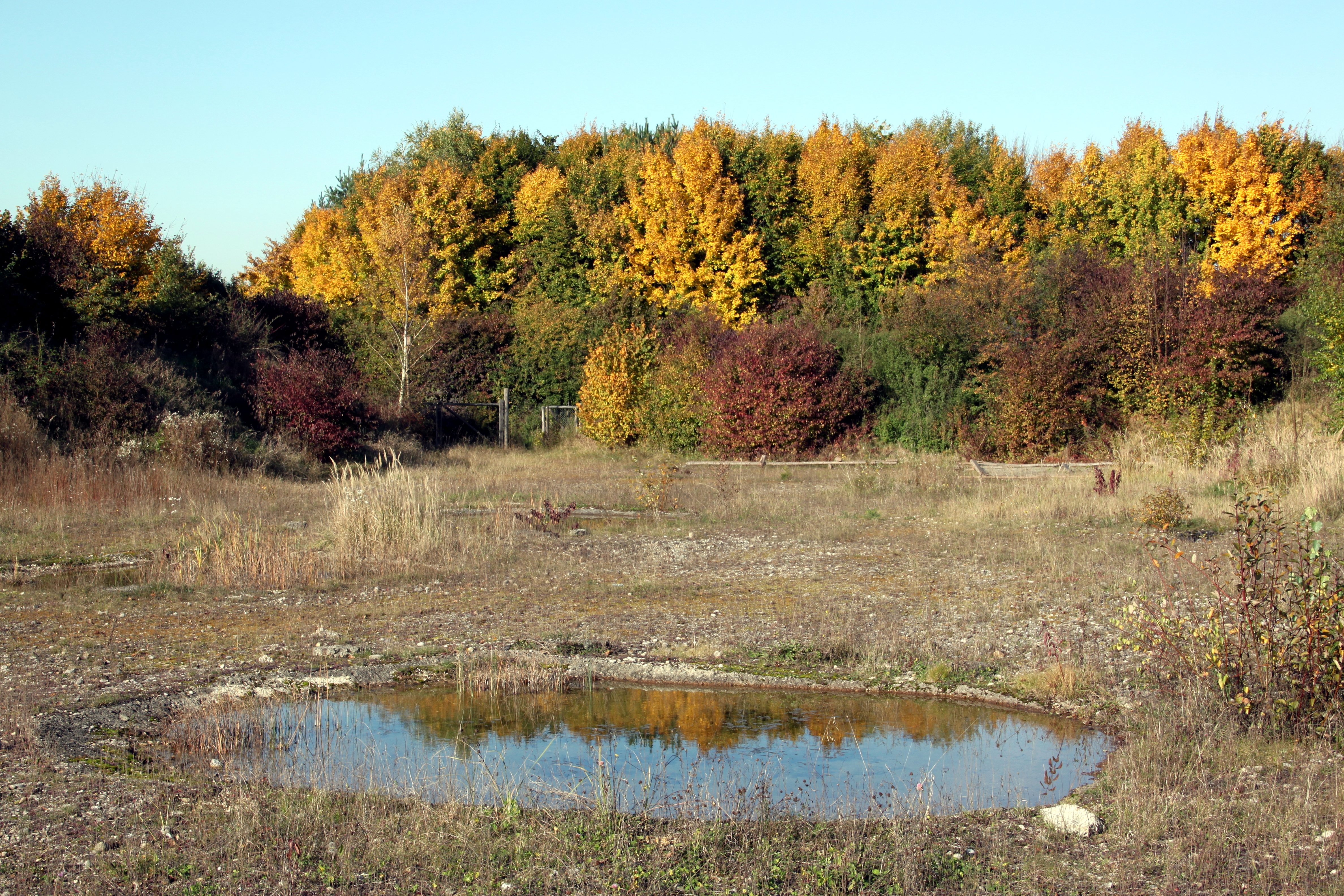 Ottobrunn (Haidgrabenweg): European green toads biotope southeast of the Park Cemetery.